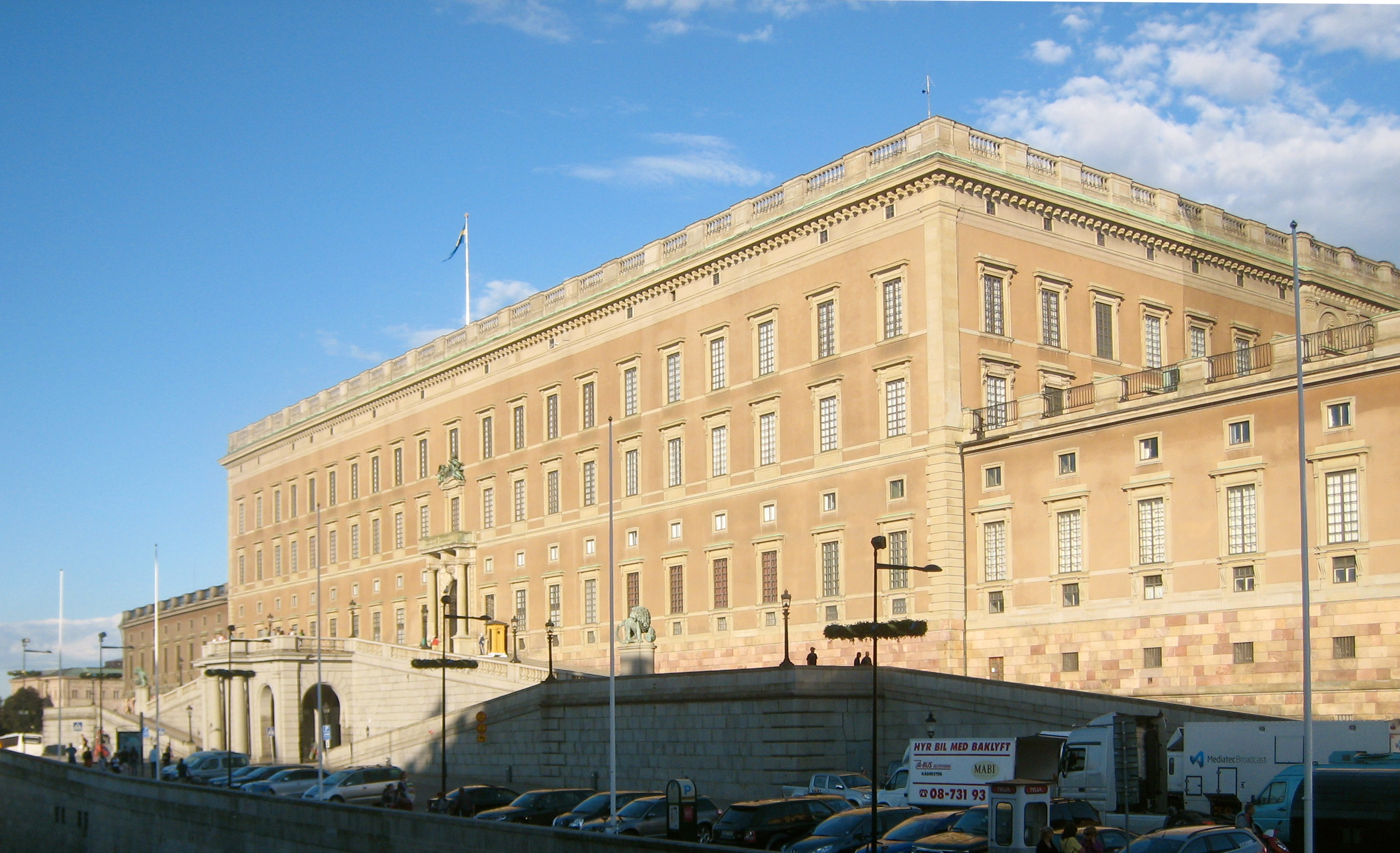 Lejonbacken